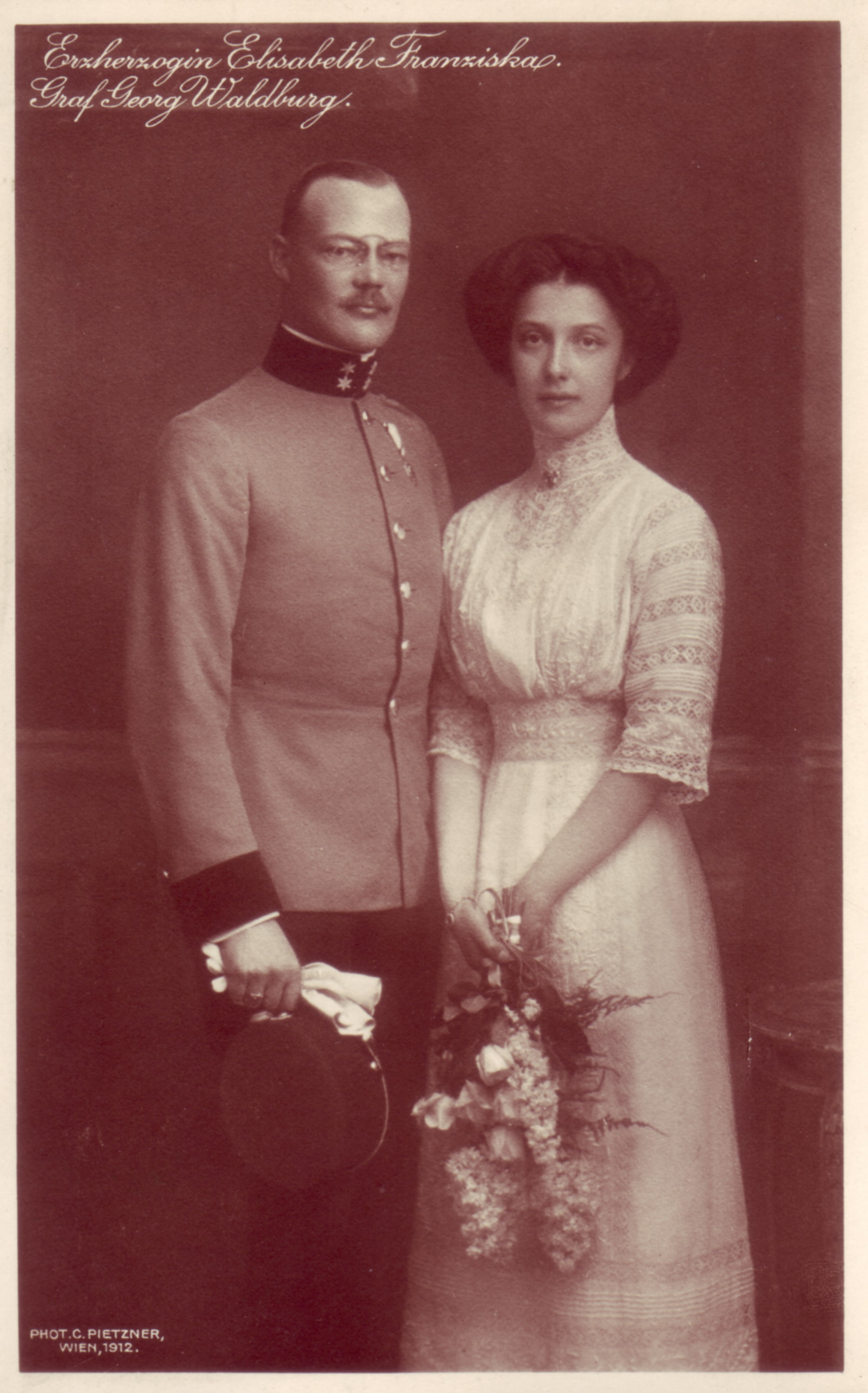 Archduchess Elisabeth Franziska of Austria-Tuscany (1892–1930), (daughter of Marie Valerie and granddaughter of Emperor Franz Joseph) and her husband Count Georg of Waldburg